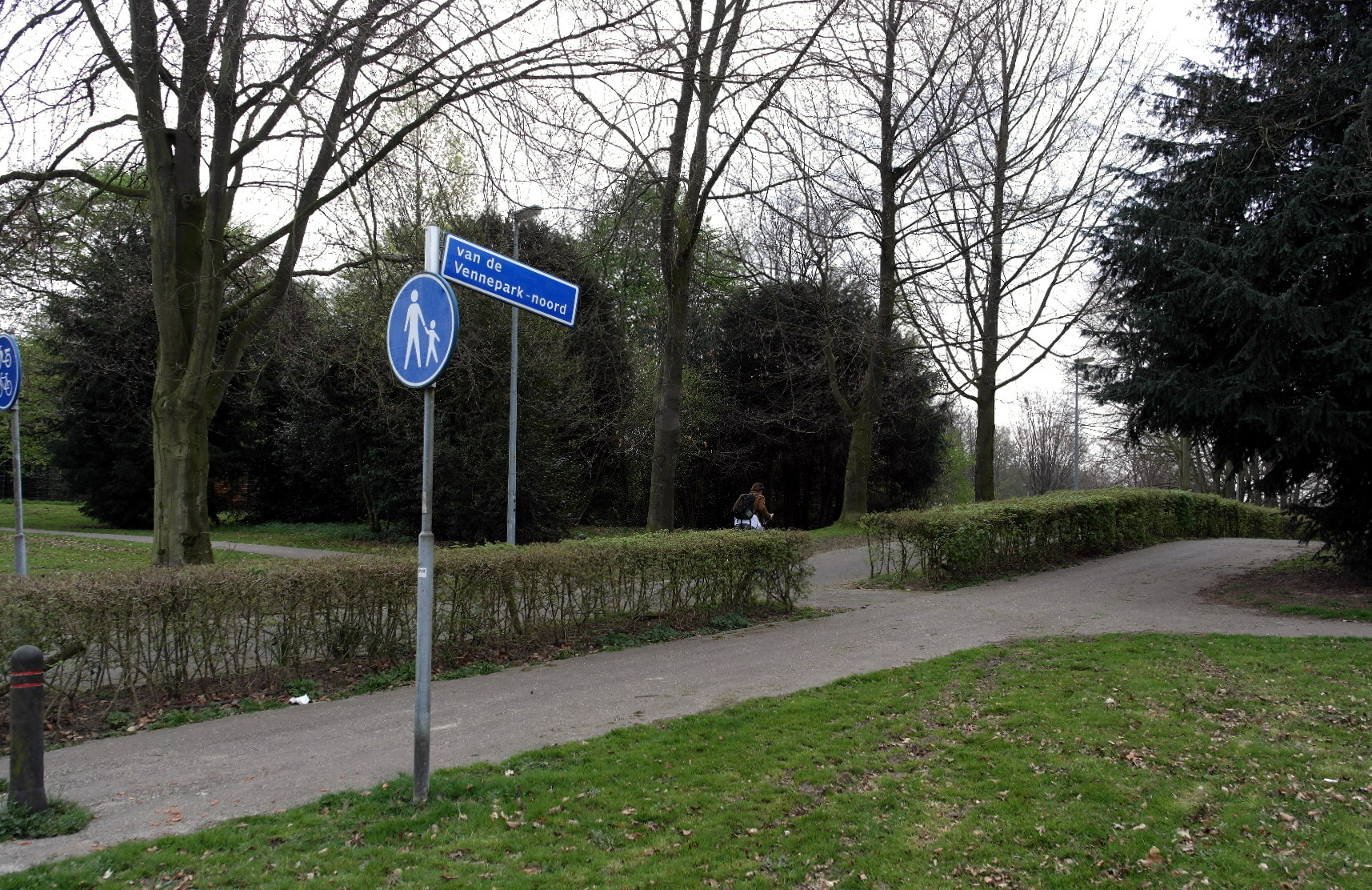 Maastricht, the Netherlands. View of the northwestern section of Van de Vennepark in the Maastricht-West neighbourhood of Malberg. The park is named after the urban planner J.J.J. van de Venne (1914-1977).